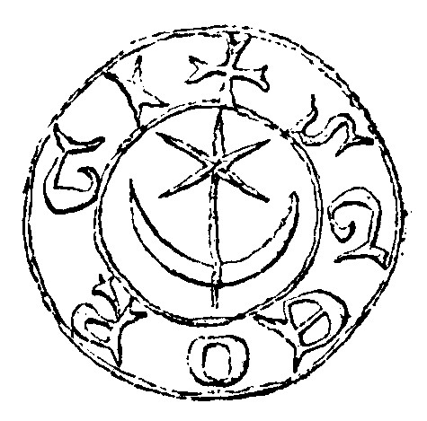 Seal of Leliwa coat of arms by unknown Georgius (early XIV-th century)